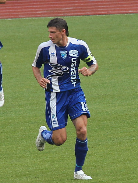 Alexey Medvedev